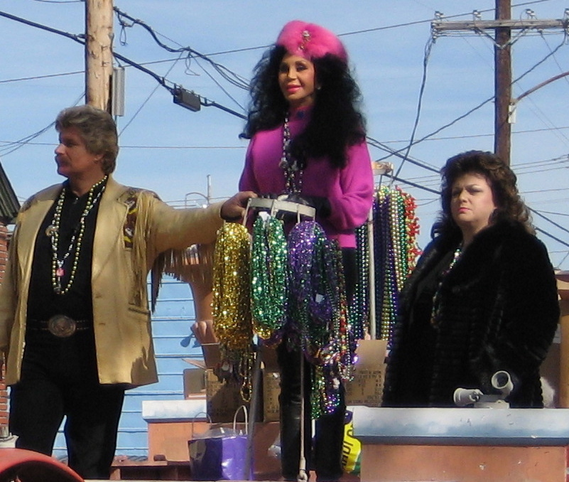 New Orleans Carnival 2007: Veteran Burlesque performer Chris Owens (in purple, center) rides as Grand Marshall in Krewe of Shangri-La parade